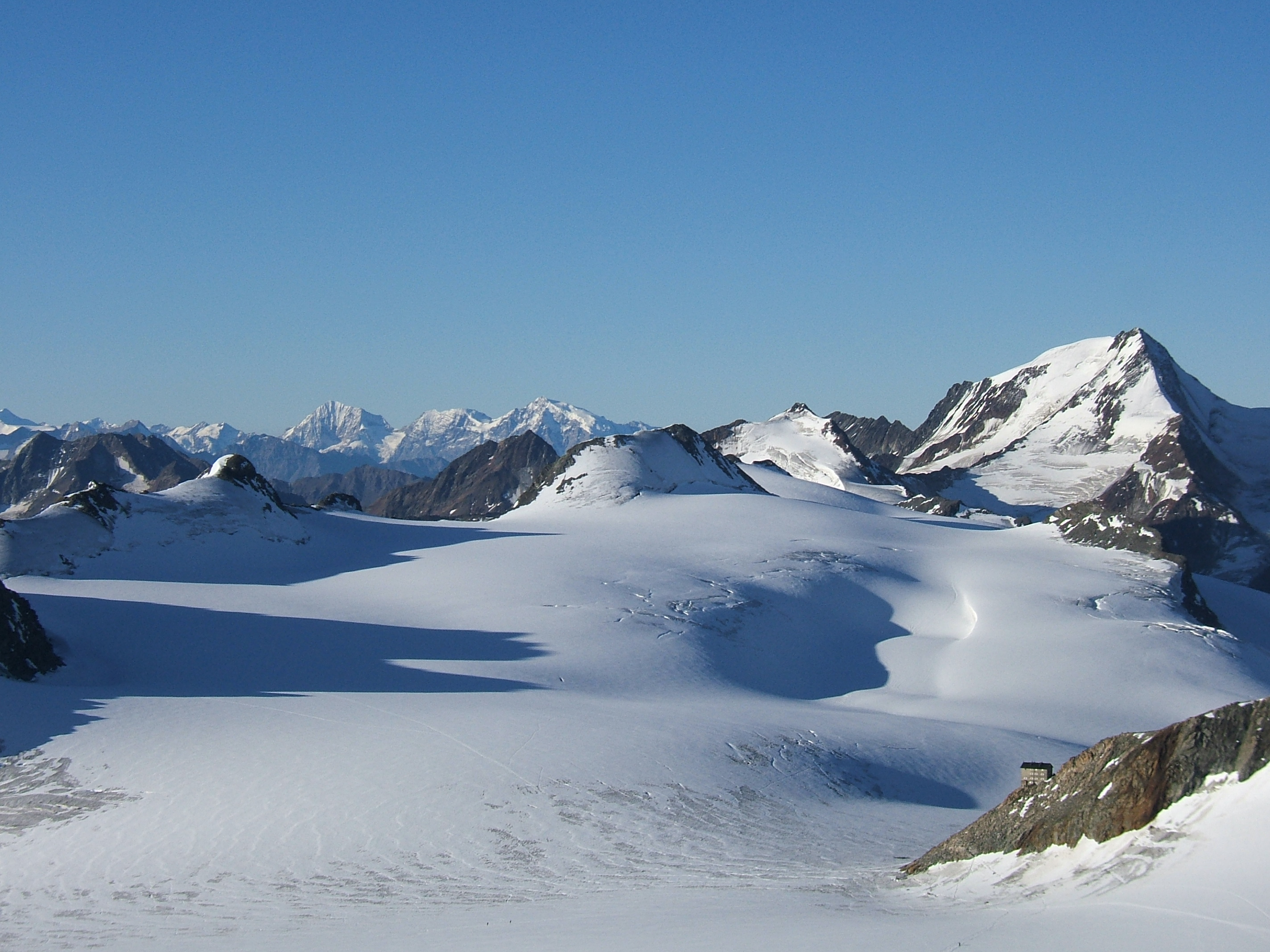 Brandenburger Haus and Weißkugel as seen from Fluchtkogel, in the background Ortler und Gran Zebrù.